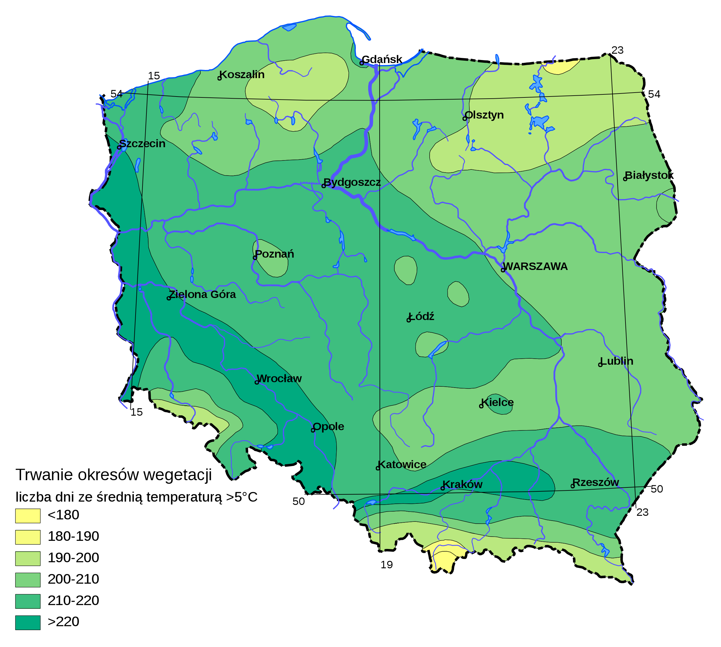 Growing season in Poland; created with QuantumGIS 1.4, source files